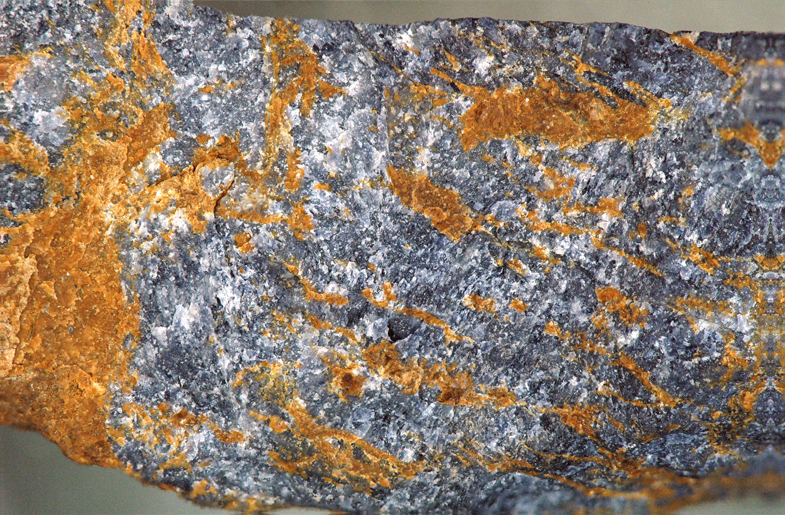 Corundite (emery rock) (broken surface, dry) with corundum/sapphire (blue) and calcite (yellowish-brown). Corundite is a remarkable metamorphic rock. The sample shown here has an attractive bluish color and wisps of yellow-brown. Its composition and origin are quite unusual. Corundite (a.k.a. emery rock) is dominated by corundum, a very hard (H ≡9) aluminum oxide mineral (Al2O3). This particular rock has blue corundum, therefore it can be called sapphire. Rock-forming corundum is rare. This material comes from the Naxos Emery Deposits on the island of Naxos in the Aegean Sea. Naxos is dominated by metamorphic rocks and some igneous rocks. Much of the island consists of marbles (originally limestones). Some of the original limestones had lenses of bauxite, which is a rock having aluminum hydroxy-oxide minerals. Upon metamorphism, the limestones were converted to marbles and the bauxites were converted to diasporites (= diaspore (AlO·OH)-dominated rocks). Upon further metamorphism, the diasporites were converted to corundites plus water. High fluid pressures fractured the rocks, and the fractures got filled up with corundite. Metamorphism on Naxos occurred during the Cenozoic in two main phases. A high-grade metamorphic event occurred during the Eocene, at about 40-50 million years ago. A second, intermediate-grade metamorphic event occurred during the Early Miocene, at 16-20 million years ago. Info. synthesized from: Urai & Feenstra (2001) - Weakening associated with the diaspore-corundum dehydration reaction in metabauxites: an example from Naxos (Greece). Journal of Structural Geology 23: 941-950. Feenstra & Wunder (2002) - Dehydration of diasporite to corundite in nature and experiment. Geology 30(2): 119-122.